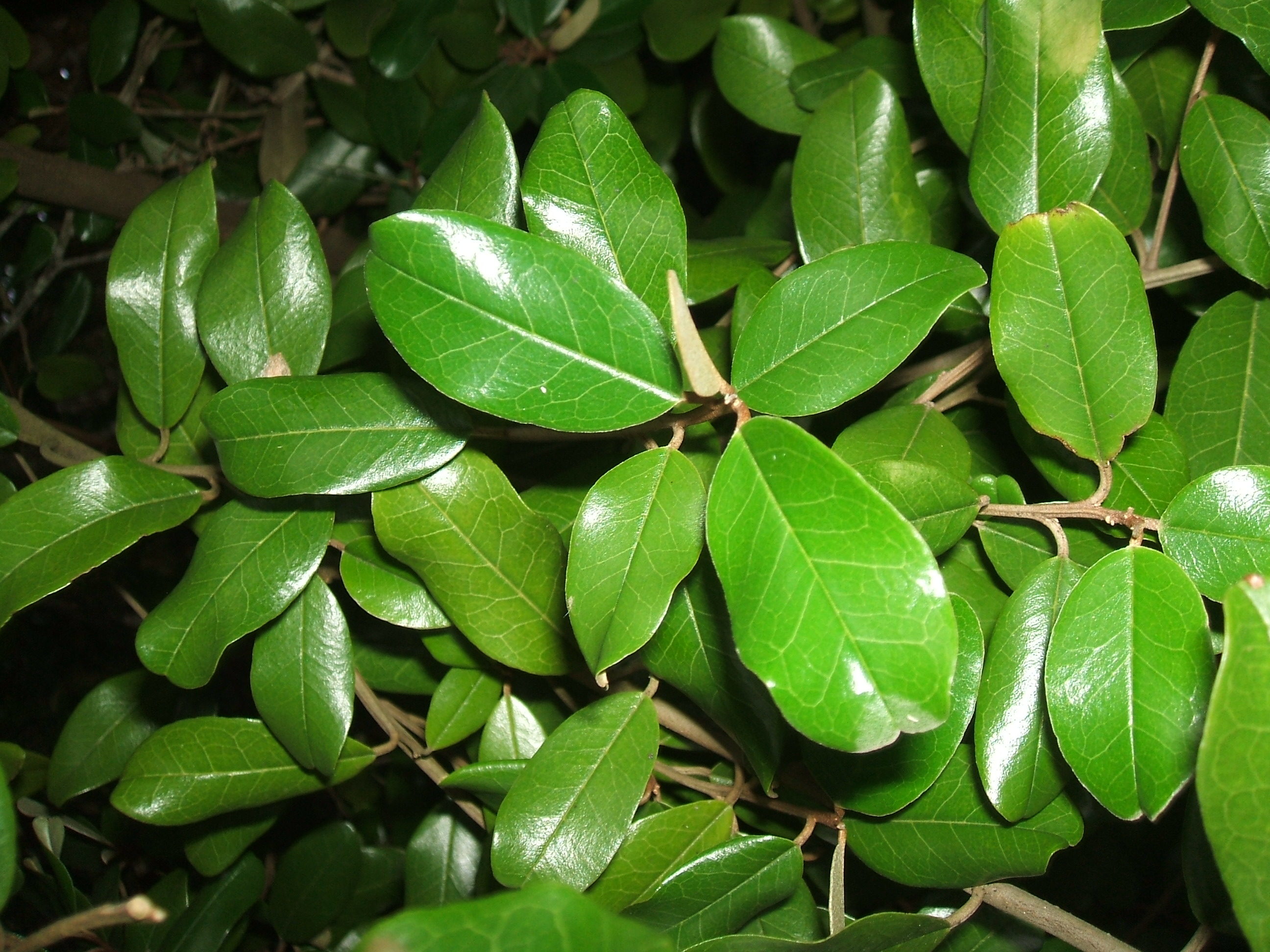 Capparis cynophallophora at Marie Selby Botanical Gardens, Sarasota, Florida, USA. Detail of apical twig showing young leaf folded to reveal the hairy lower surface.